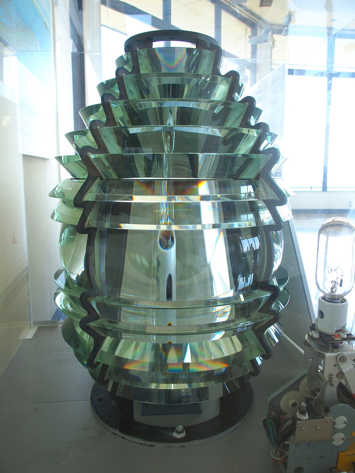 Old third-order lighthouse Fresnel lens of the Sekizaki Lighthouse, located at the protruding end of Saganosekihanto of Ōita